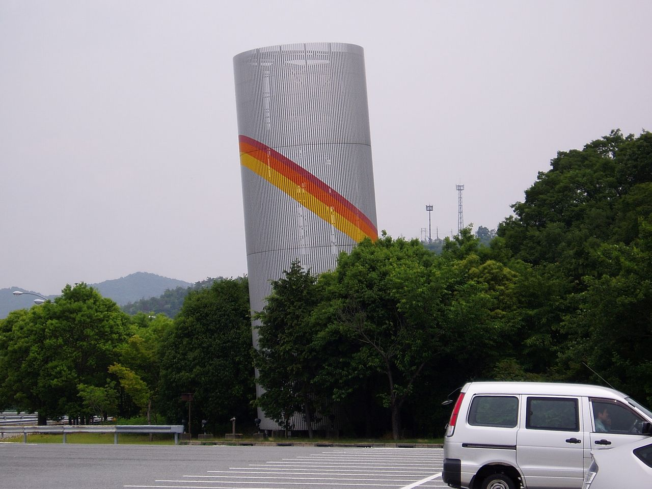 Water tower at Shiratori Parking Area on the Sanyo Expressway outbound line for Yamaguchi